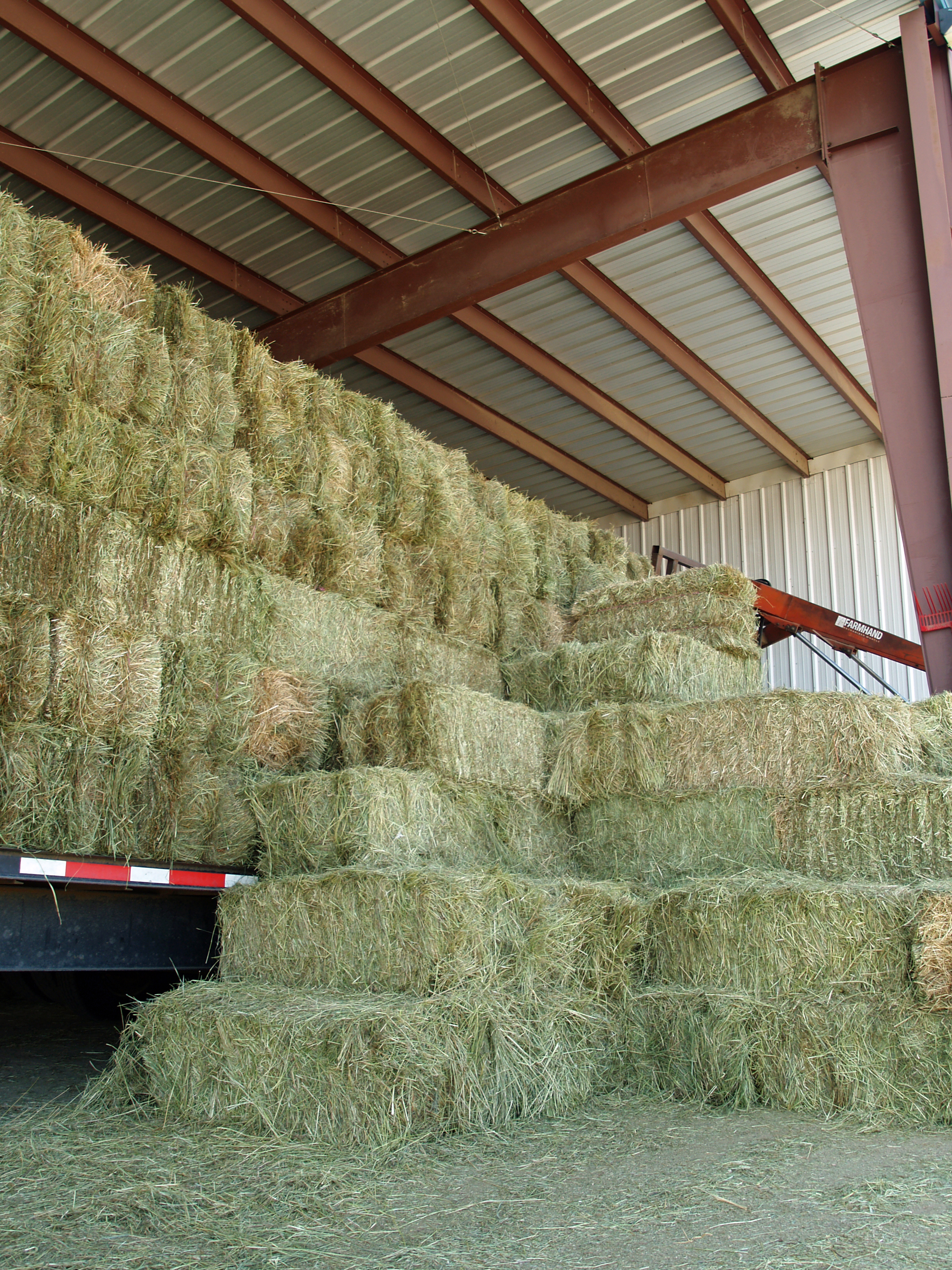 Grass hay in Falcon, Colorado, USA.